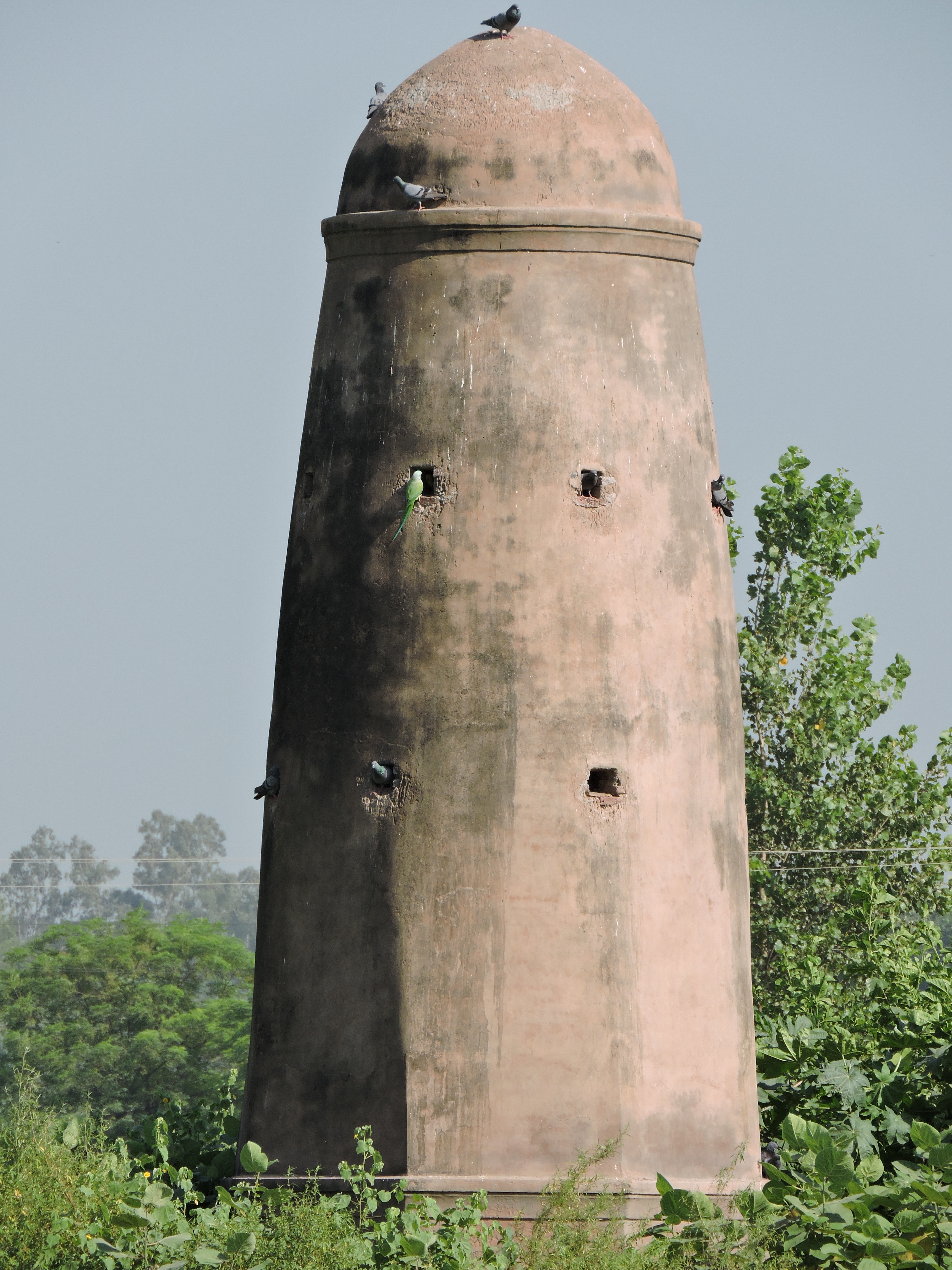 Kos Minar , the Milestone near Karnal Haryana ,India